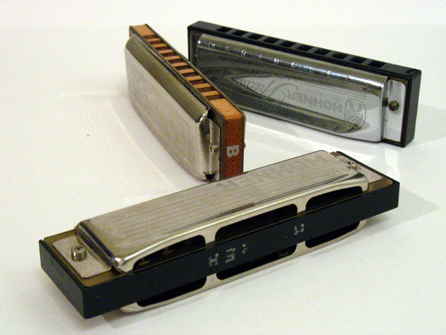 Harmonicas